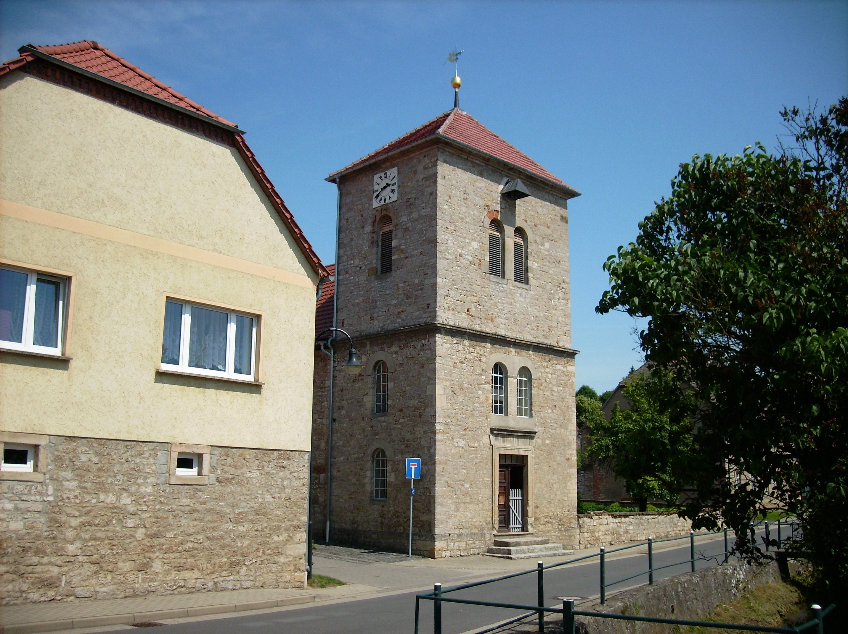 Rehehausen church (Lanitz-Hassel-Tal, district of Burgenlandkreis, Saxony-Anhalt)